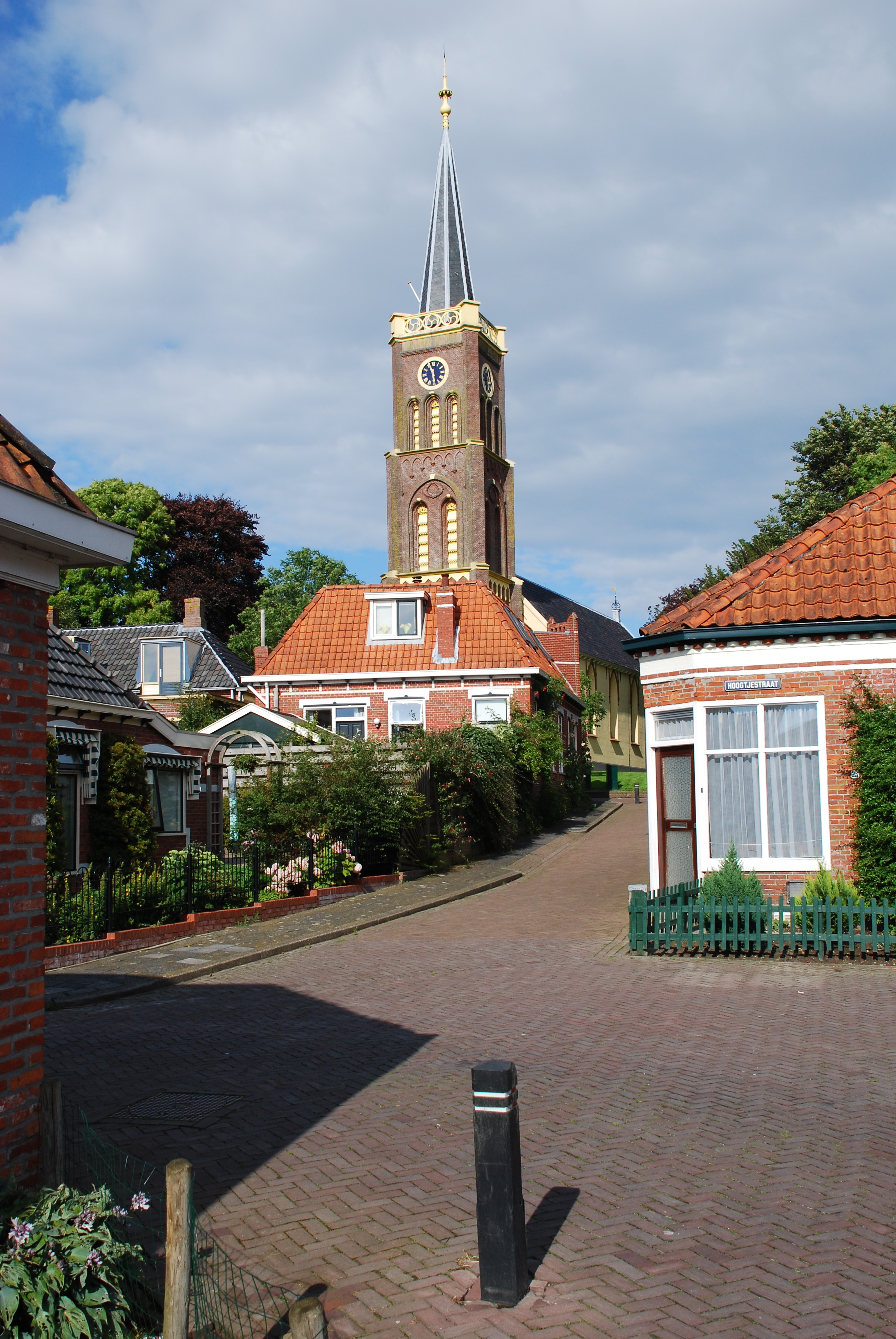 Church of Usquert on a dwelling mound